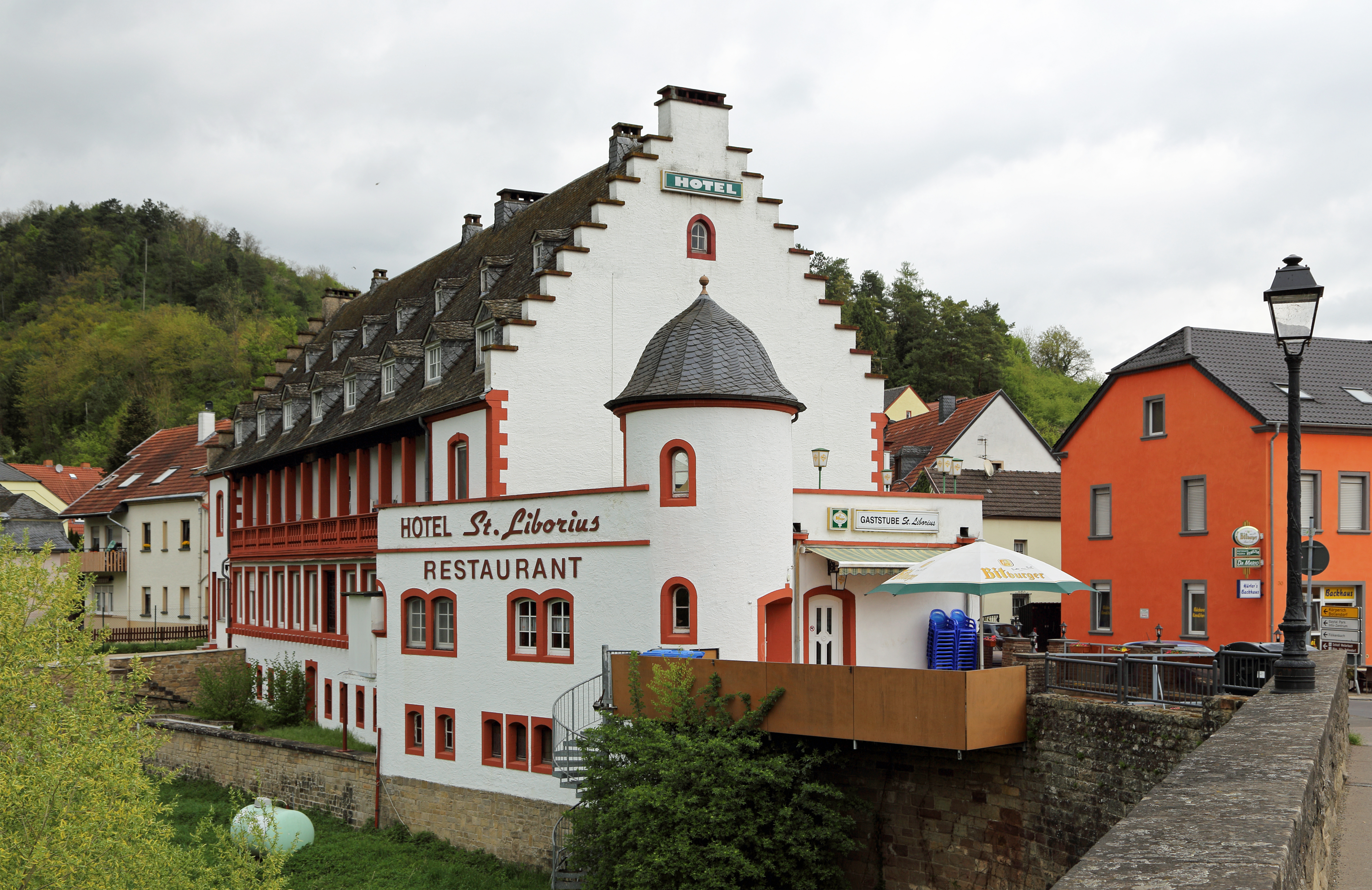 Hotel-restaurant Sankt-Liborius in Echternacherbrück (Germany) seen from the Old Sauerbridge between Echternach (Grand Duchy of Luxembourg) and Echternacherbrück